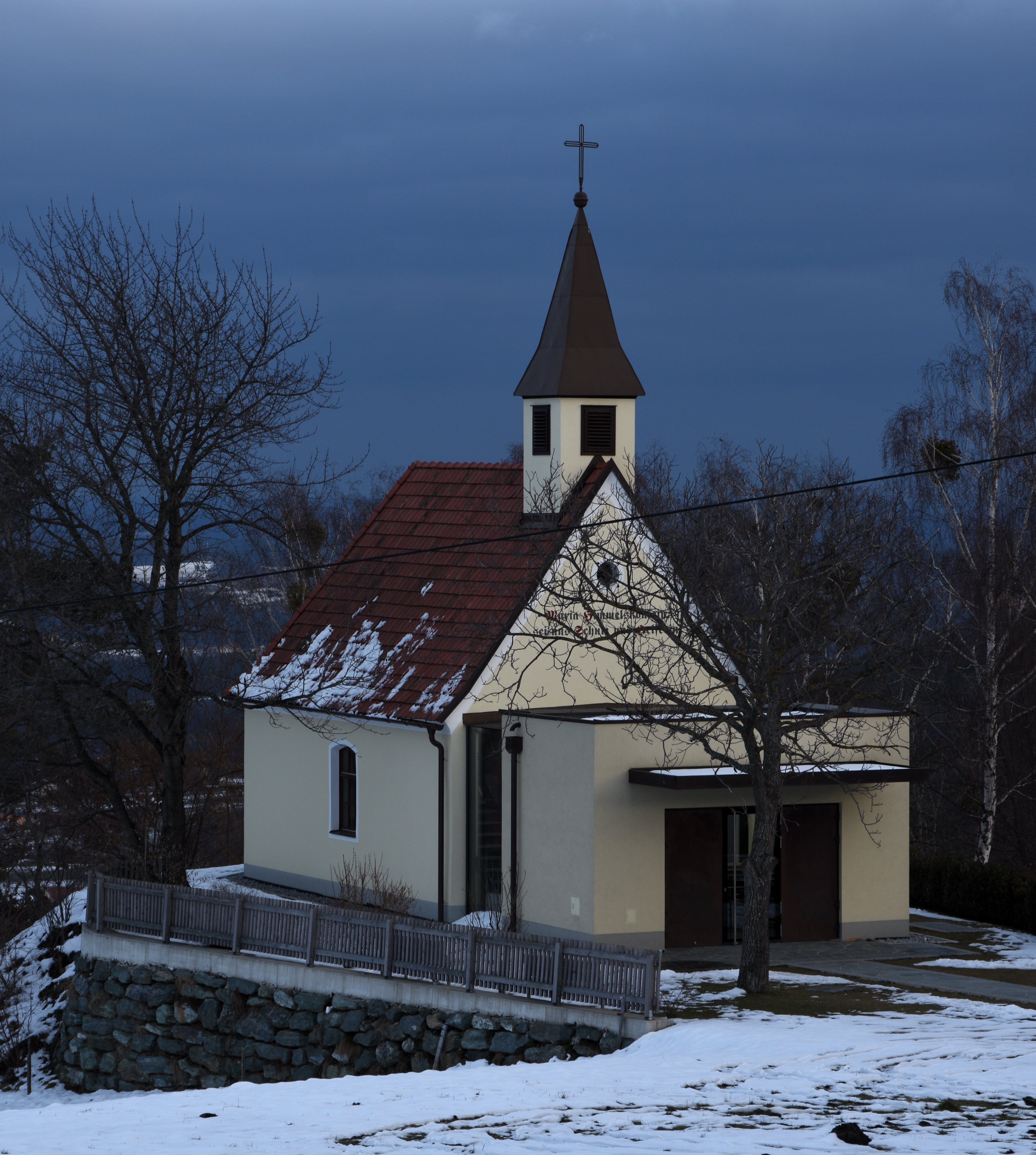 Cultural heritage monuments in Greinbach